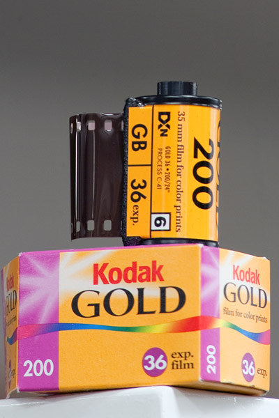 Photo of a 36-exposure roll of Kodak Gold film, ASA 200.